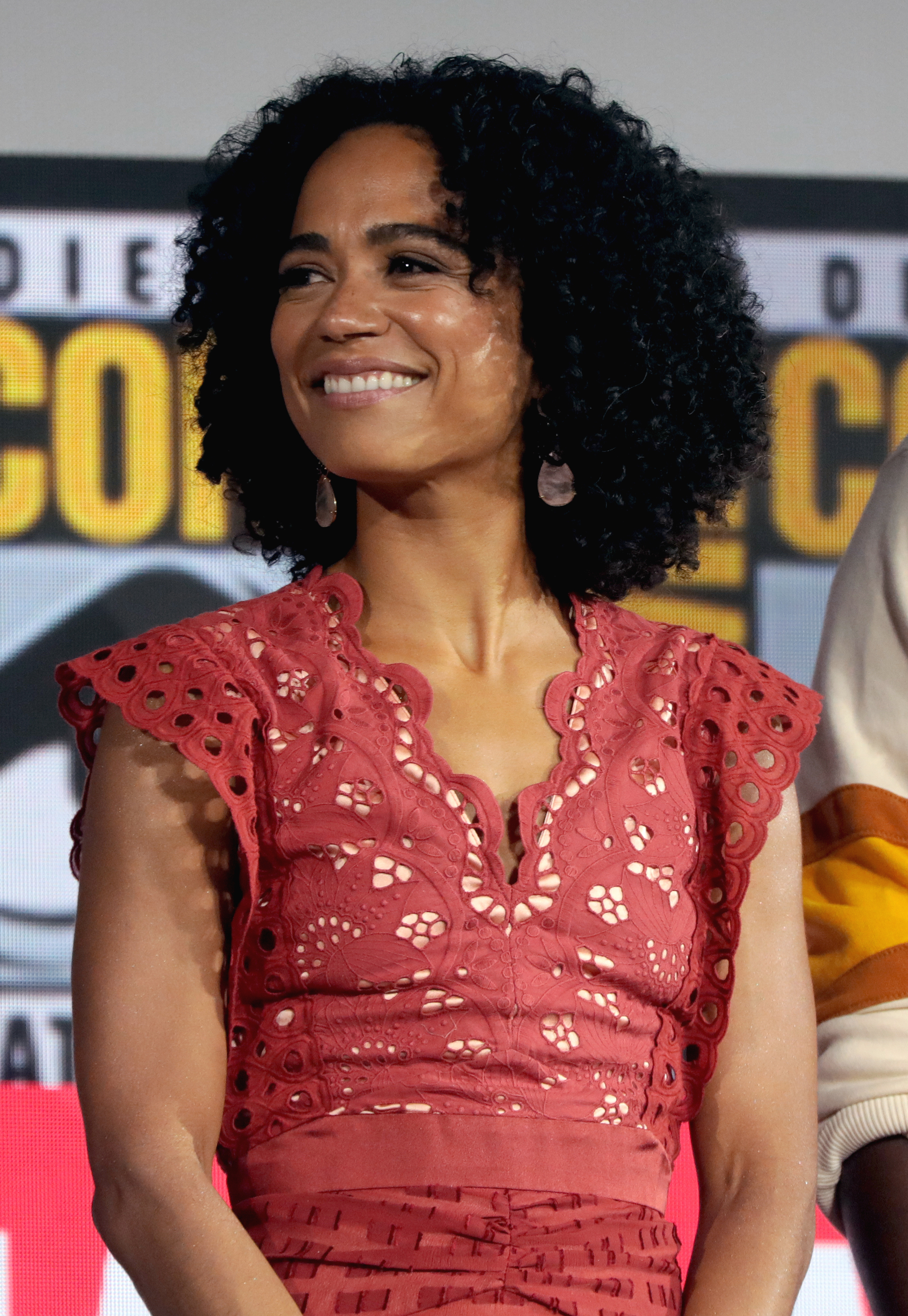 Lauren Ridloff speaking at the 2019 San Diego Comic-Con International in San Diego, California.